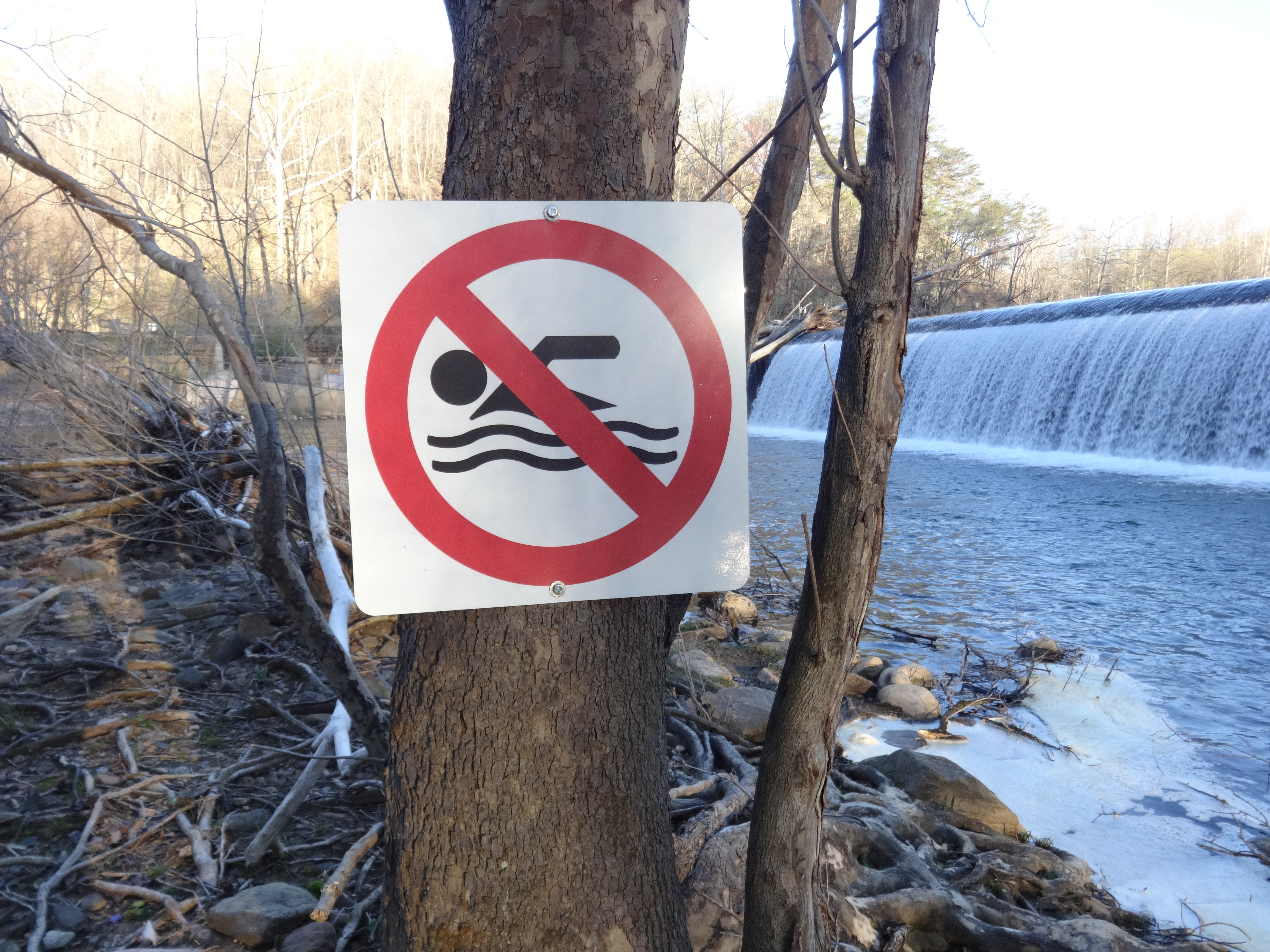 Warning signs at Daniels Dam, Daniels Area, Patapsco Valley State Park, Maryland.